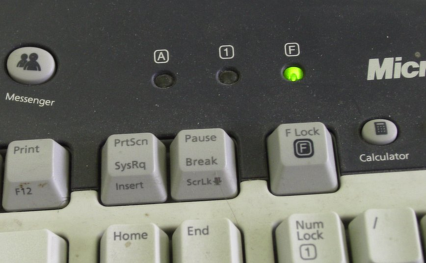 Photograph of the F-Lock key (lossy version). Created by uploader, Shlomi Tal. This version is for the Wikipedia page on the F-Lock key. If you want an image free of compression artifacts for making derivative works, download the lossless version.